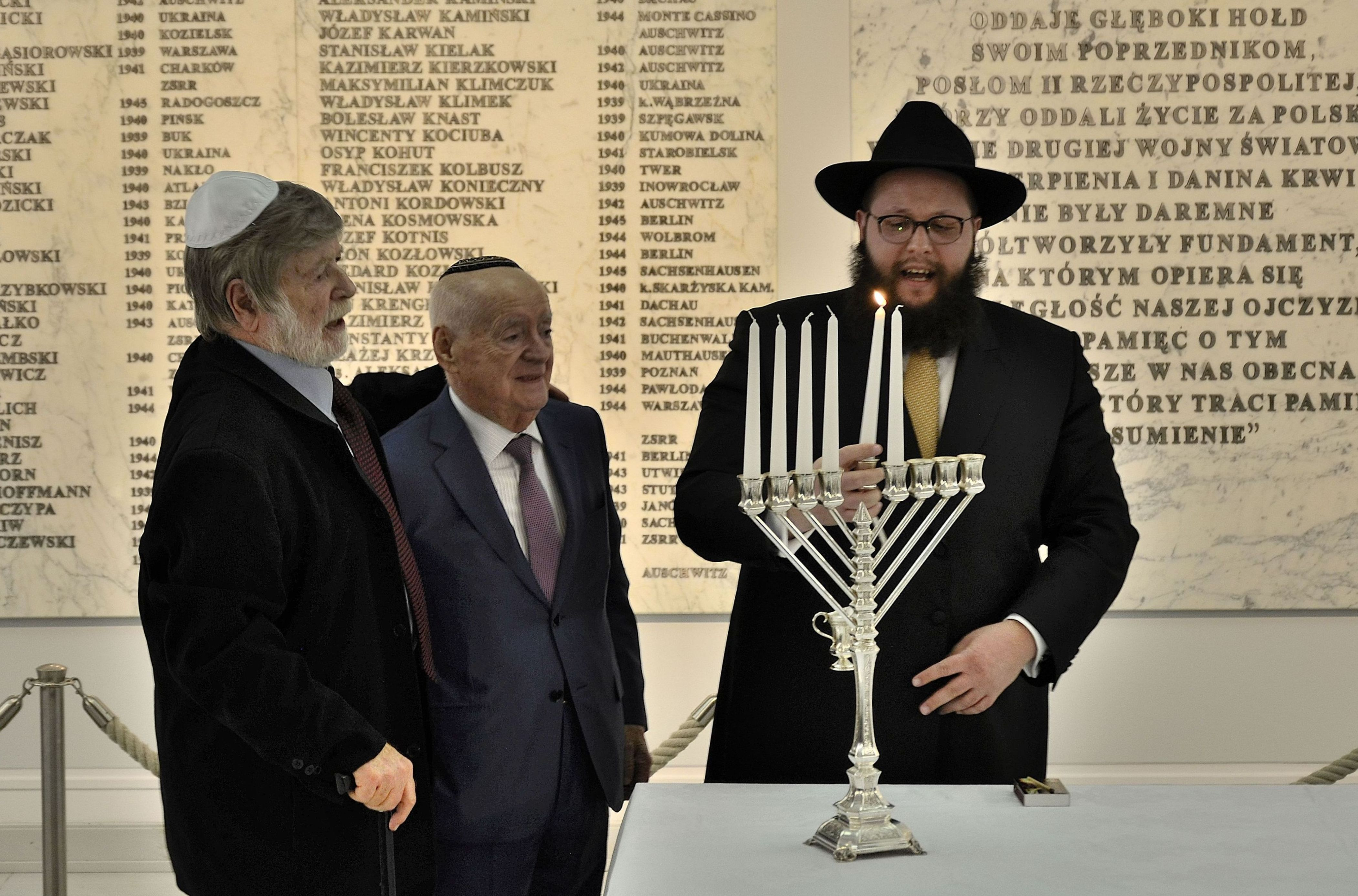 LIghting of the lights of a menorah during Hanukkah in the Polish Sejm